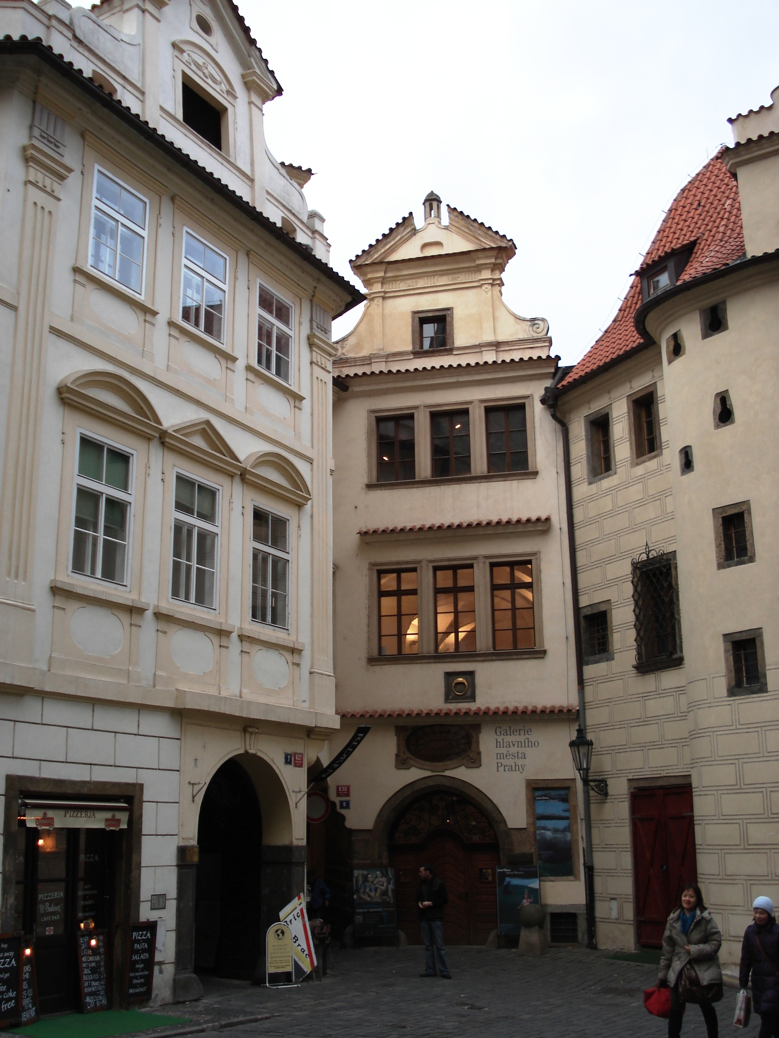 Tynska street in Old Town, Prague.